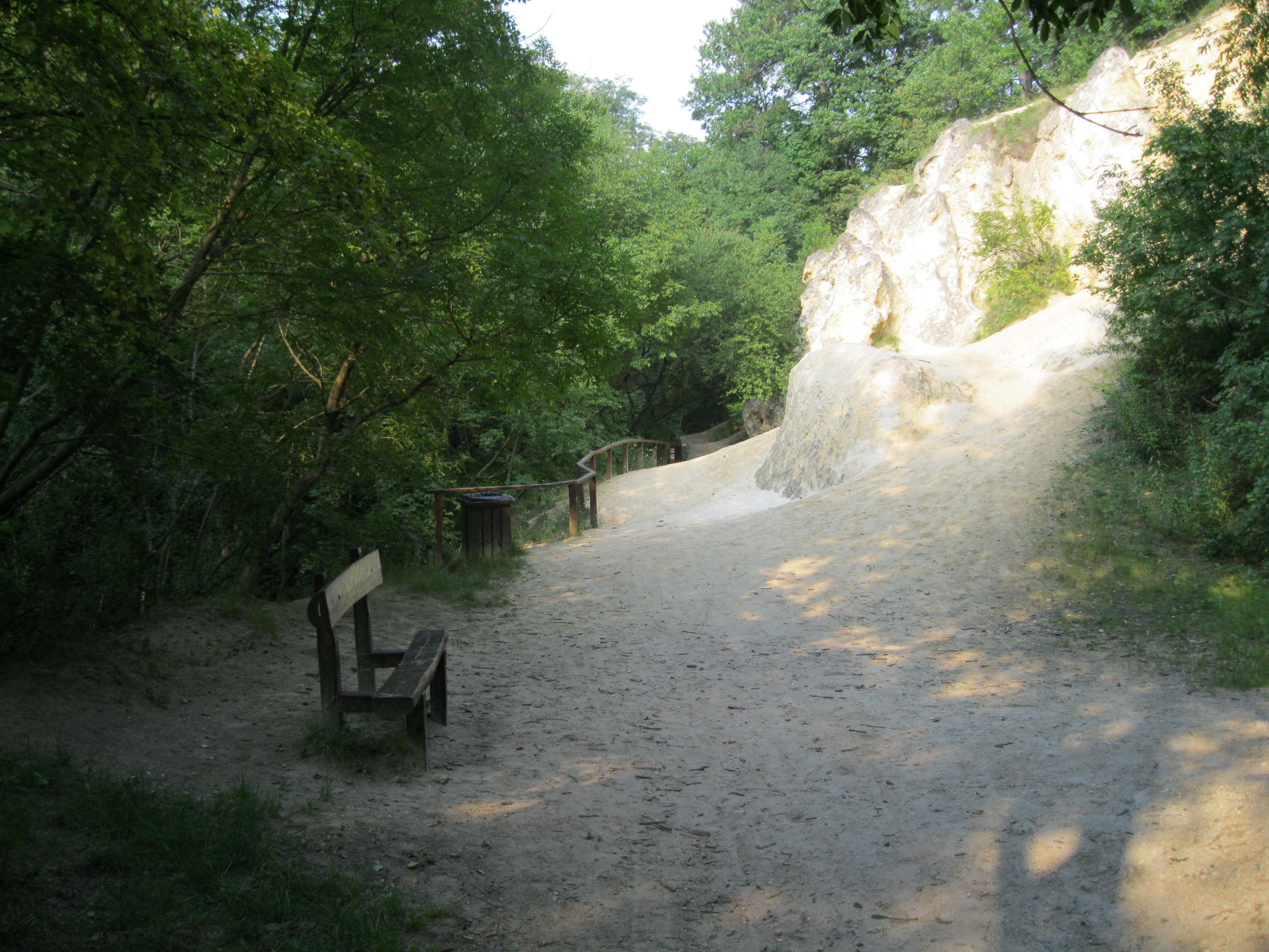 Detail of the Alsó-Jegenye Valley